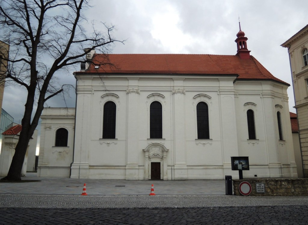 Mladá Boleslav Karmel, former church